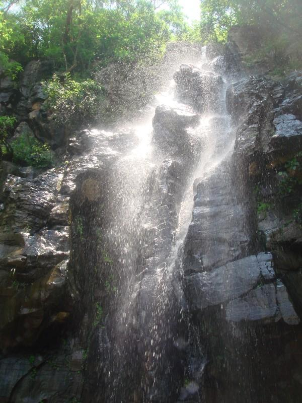 "El Salto" ("The Jump"), a small waterfall on the town of San Luis Soyatlán, Jalisco, Mexico.